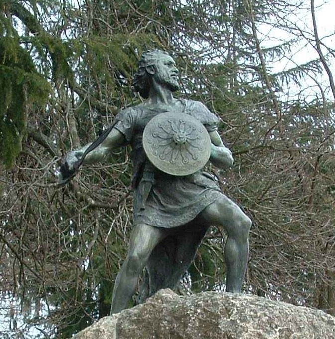 Statue of Viriato, at Viseu, Portugal